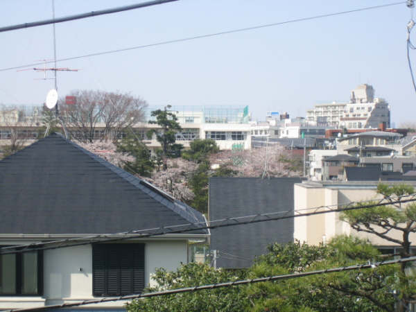 A typical view of Den-en-chöfu